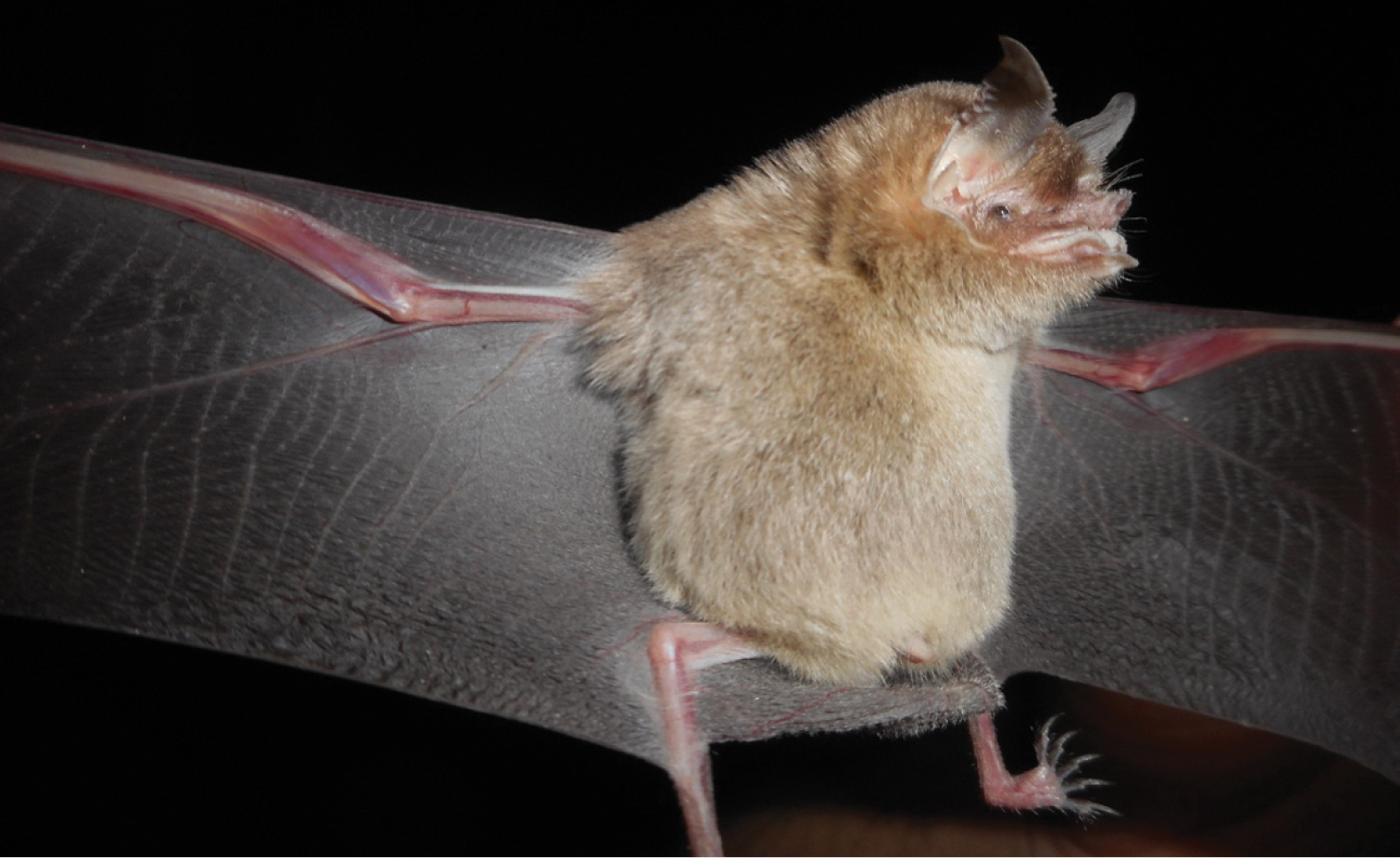 Figure 5; Pregnant female of Pteronotus personatus in the Cave of El Peñón during the survey of May 8, 2016. The photo was taken by Hefer Ávila.